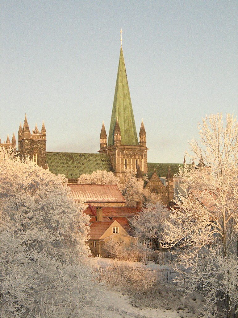 Nidarosdomen cathedral in wintertime.